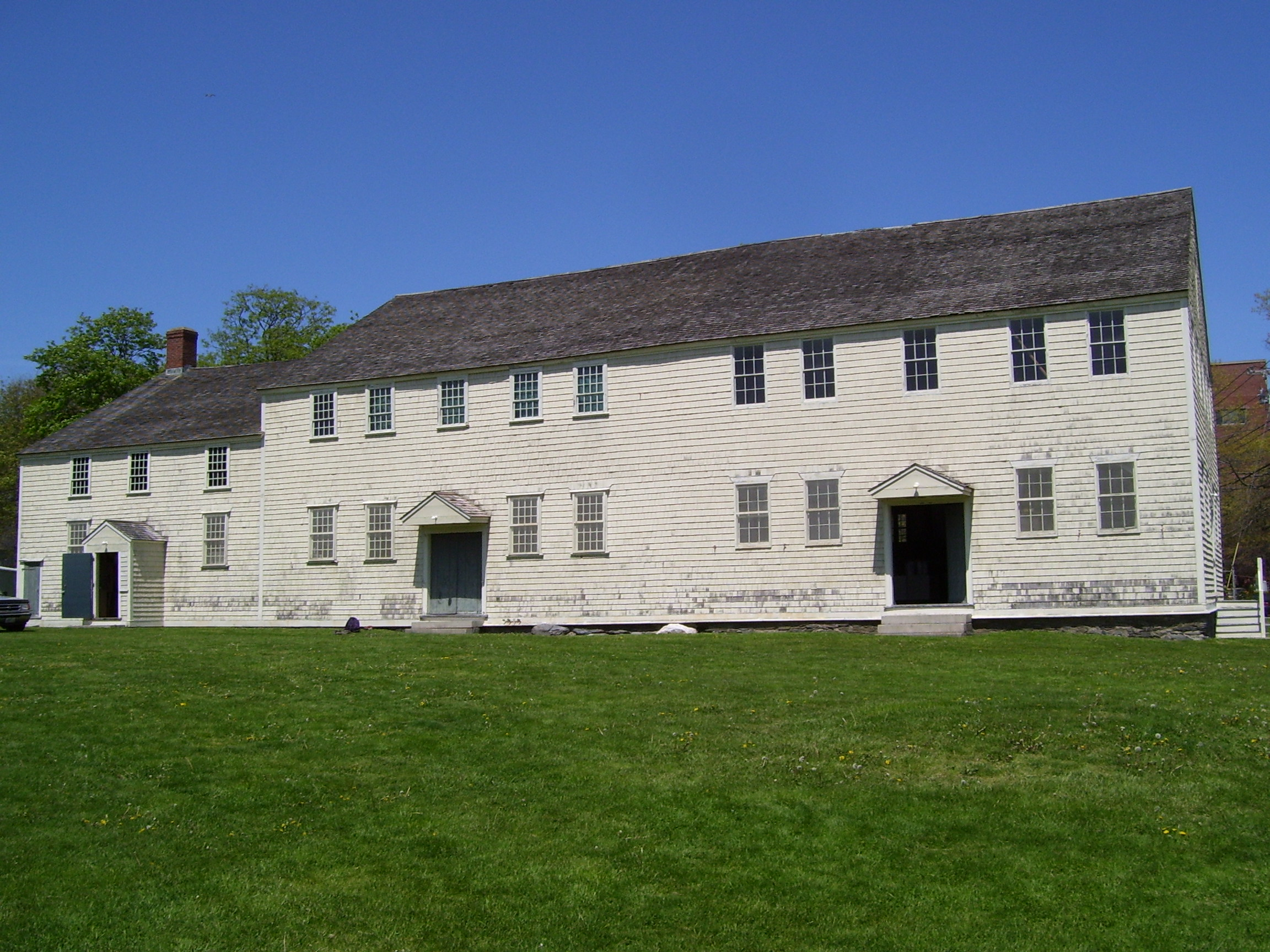 My pic from 2008